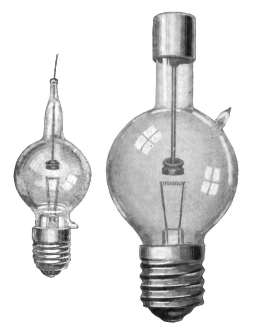 Two General Electric Tungar rectifier bulbs from 1917. The lefthand one is rated at 2 amperes and the right at 6 amperes. These consist of a glass bulb filled with low pressure argon gas, containing a tungsten filament and a carbon pellet anode. Ionization of the gas reduced the forward ("on") voltage to much lower values than could be achieved in the thermionic diode rectifier tube, allowing it to rectify low voltages. It was used as a low voltage rectifier in devices such as battery chargers until it was replaced by selenium diodes before World War 2. Alterations to image: removed aliasing artifacts (crosshatched lines) due to scanning of halftone photo using Gimp FFT filter.